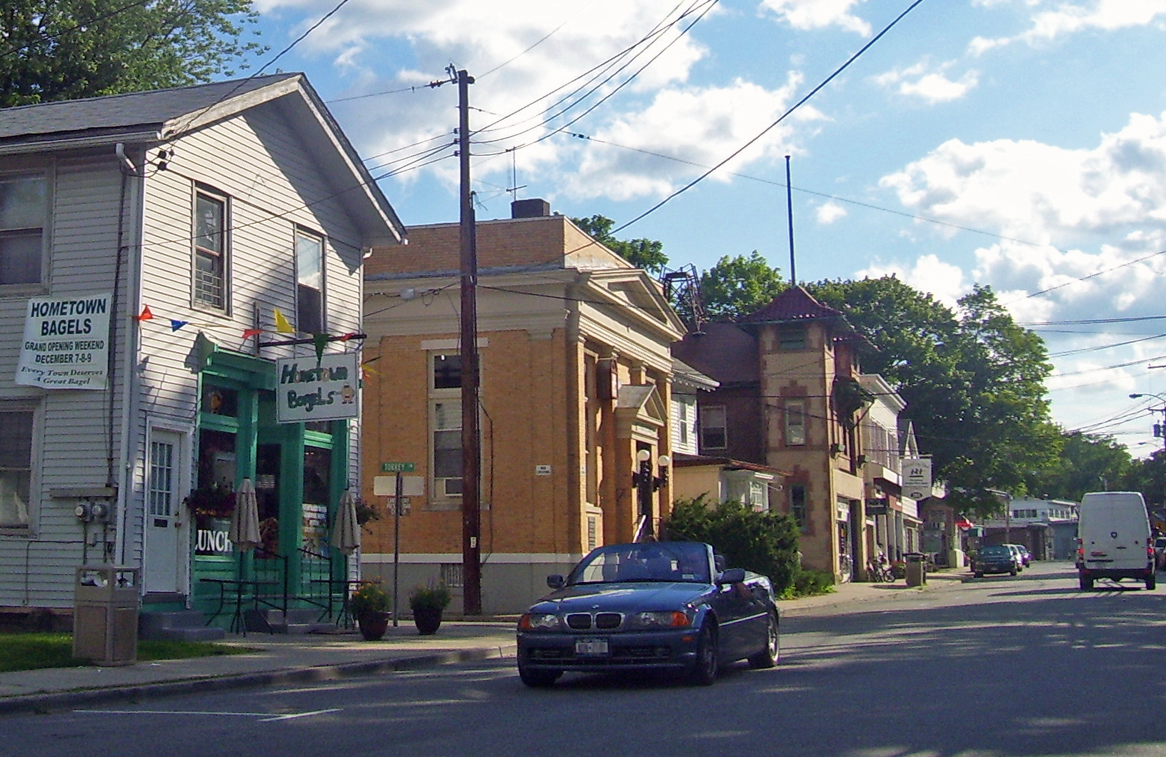 Downtown Cornwall, NY, looking west along Main Street. License plate number obscured to protect vehicle owner's privacy .